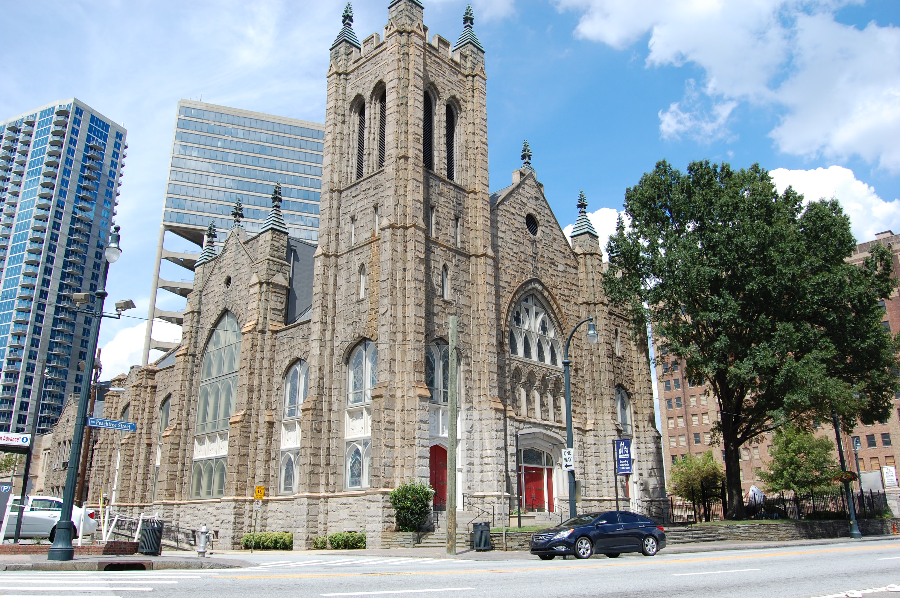 Atlanta First United Methodist Church